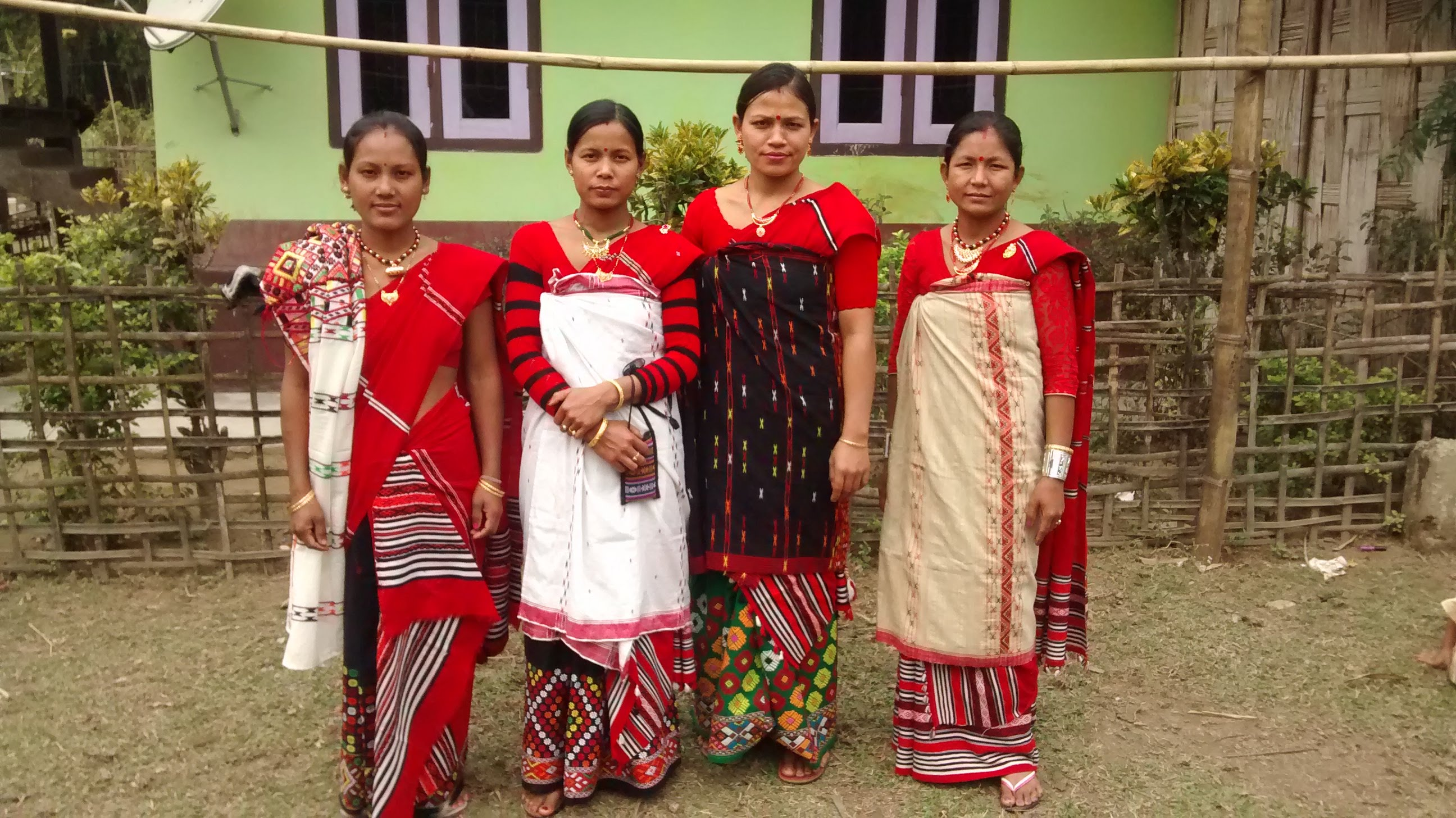 In this picture, we can see some Mising women, posing with their traditional dress This photo has been taken in the country: Unknown